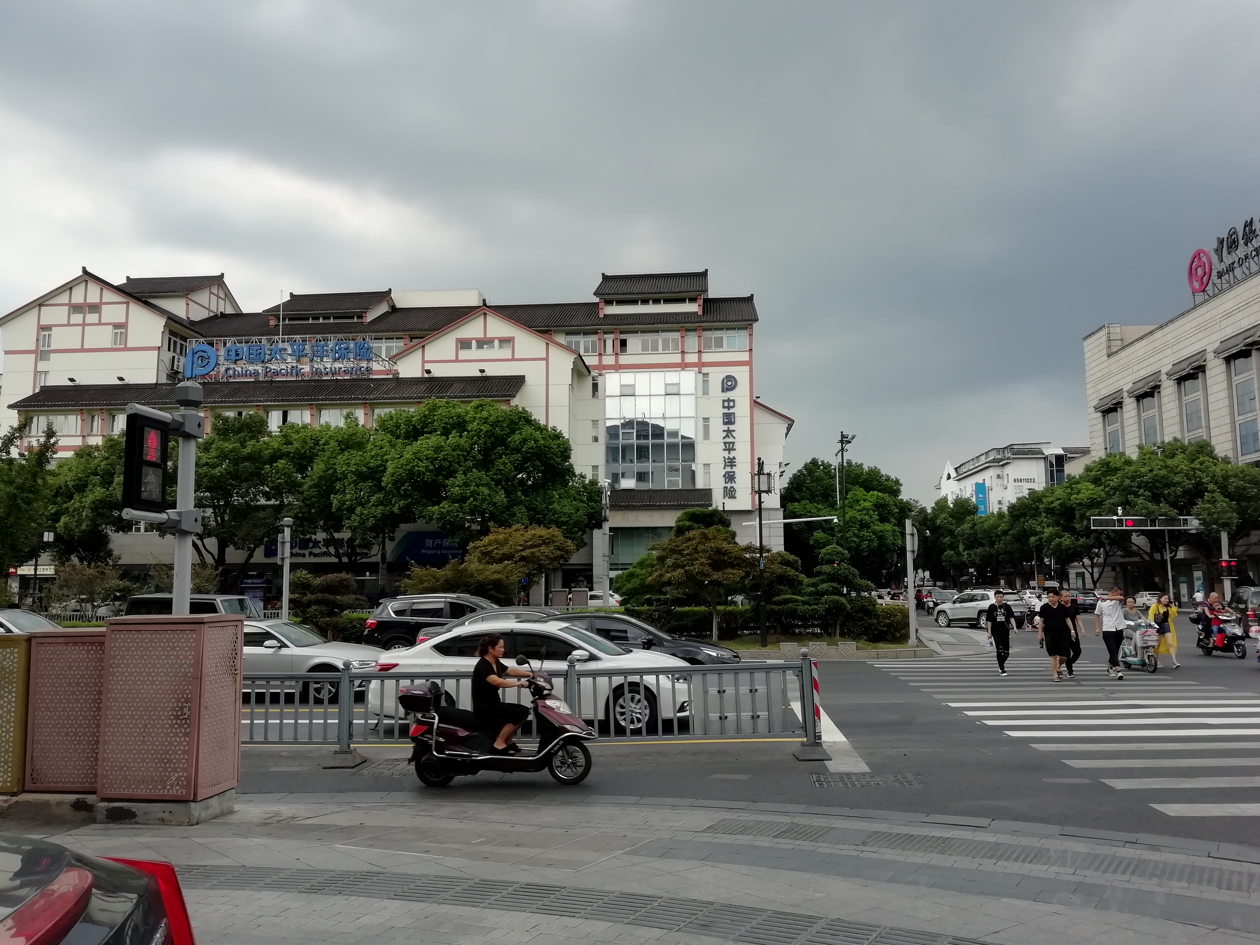 China Pacific Insurance (CPIC) Suzhou Branch, located on West Ganjiang Road, Gusu District, Suzhou. 中文（中国大陆）: 中国太平洋保险苏州分公司大楼，位于姑苏区干将西路。